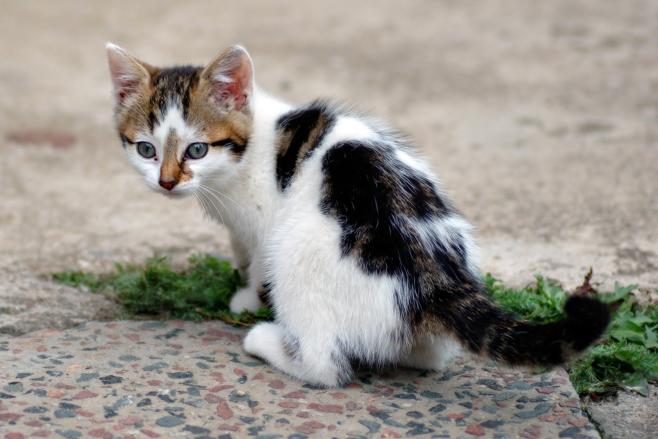 This image shows a six weeks old cat.